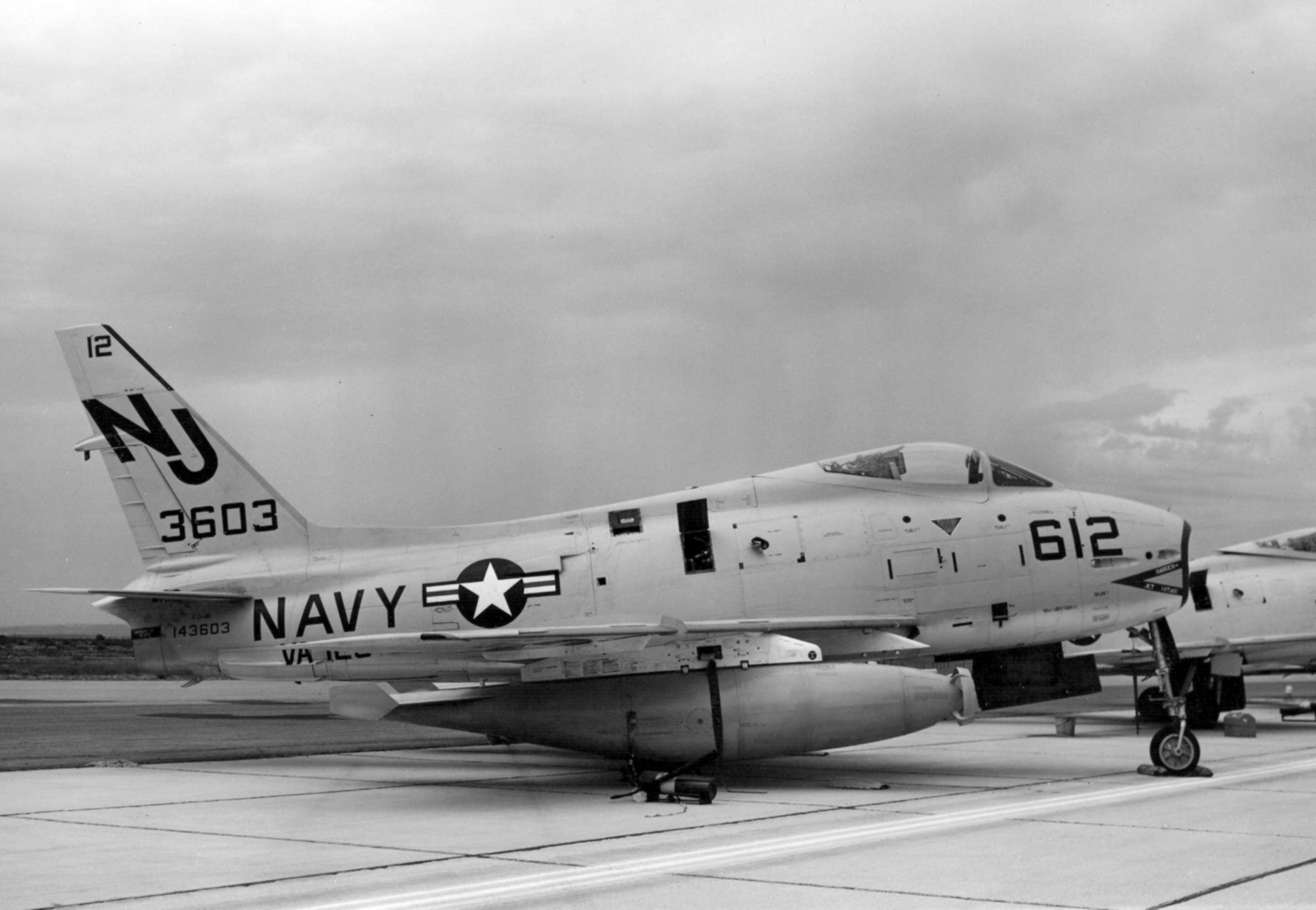 A U.S. Navy North American FJ-4B Fury (BuNo 143603) from Attack Squadron VA-126, circa 1960. VA-126 was a training (fleet replacement) squadron.